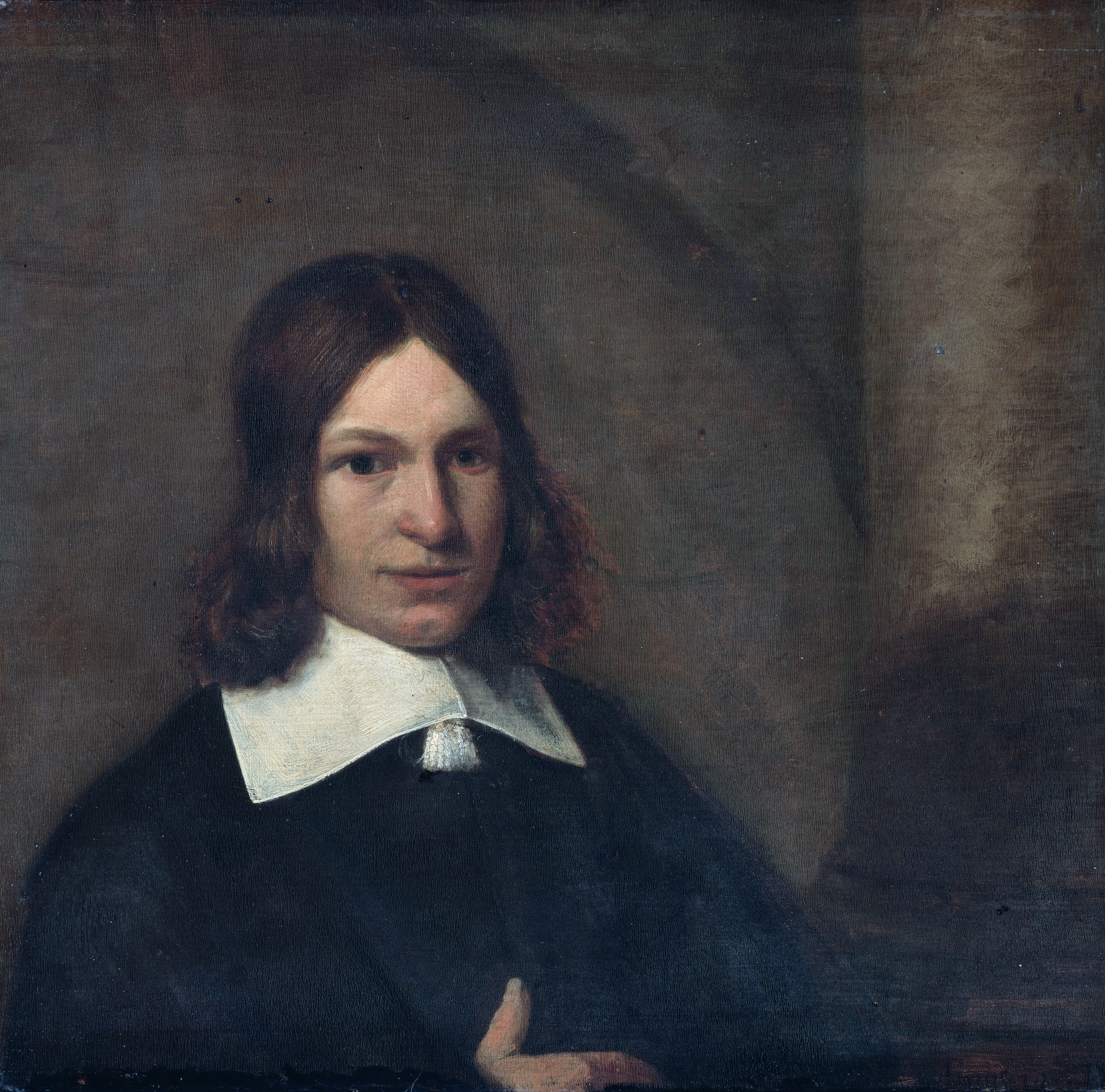 Portrait of a 19-year-old man, possibly a self portrait